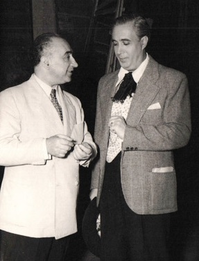 Spanish composer Federico Moreno Torroba with zarzuela baritone Plácido Domingo Ferrer, father of the famous tenor Plácido Domingo, backstage at the Teatro de la Zarzuela in Madrid in 1946. Cropped from a photo from the Museo virtual de viejas fotos on 20minutos.es. (Rights information